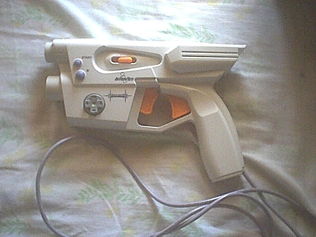 Picture of my own StarFire LightBlaster lightgun. Kitsune Sniper / David Silva 22:51, 24 September 2006 (UTC)